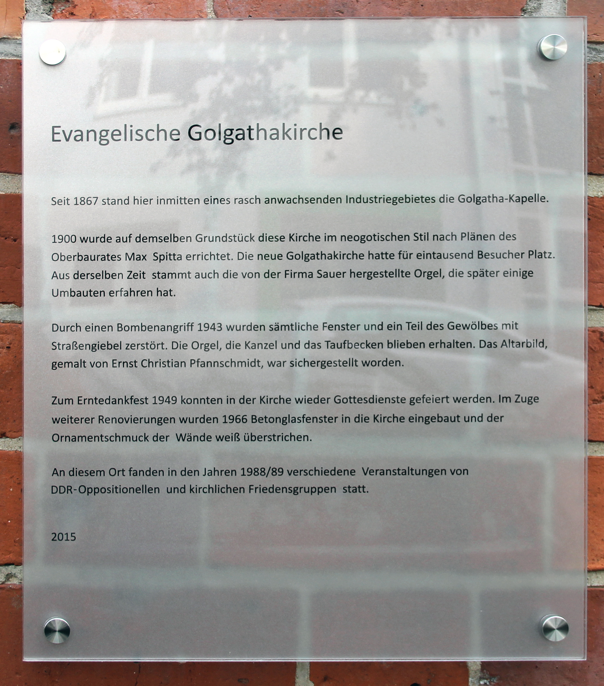 Memorial plaque, Golgathakirche, Borsigstraße 6, Berlin-Mitte, Deutschland